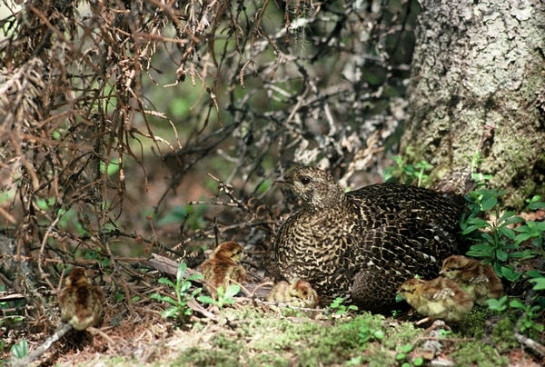 Older Hen with recently hatched Chicks